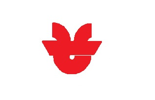 Flag of Soma Fukushima